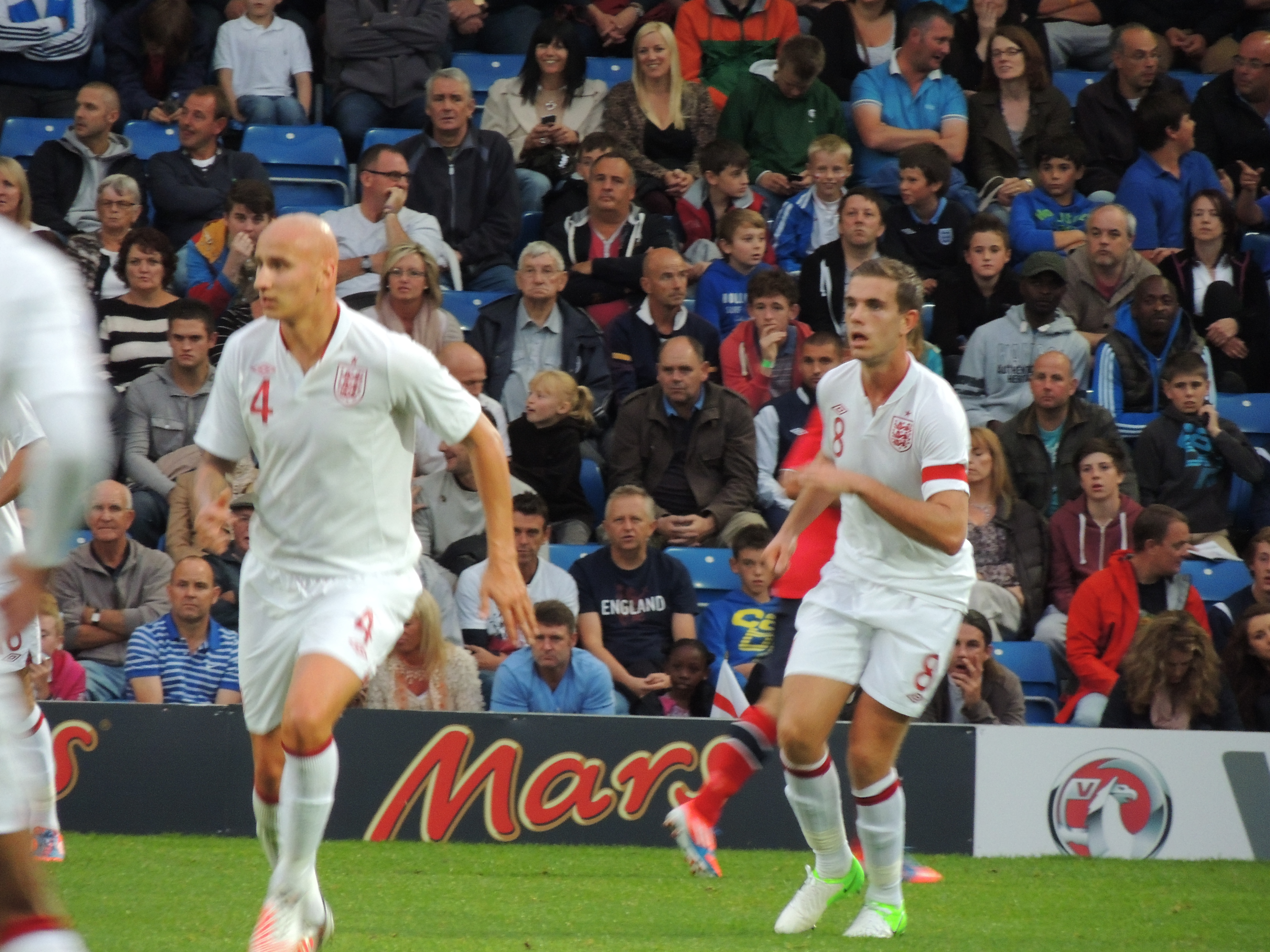 Jonjo Shelvey and Jordan Henderson playing for England U-21.